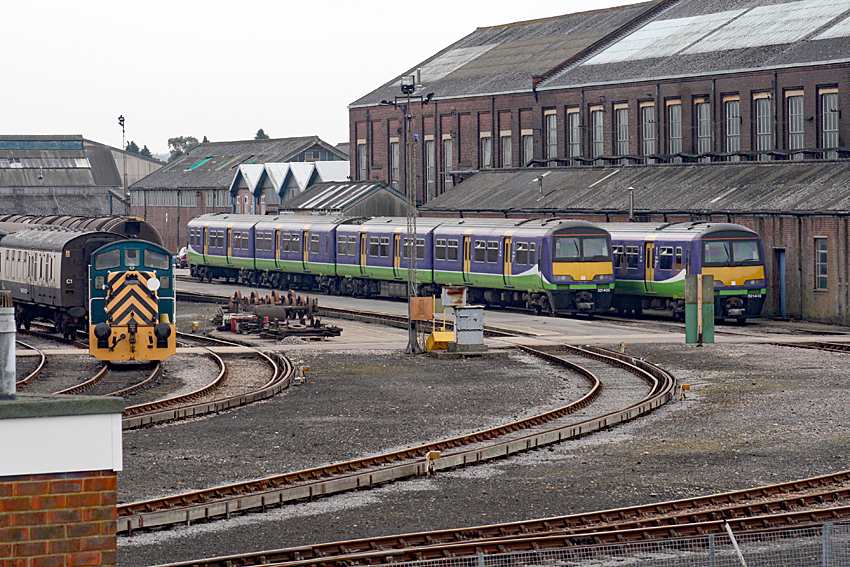 Eastleigh railway works with units 321 409 & 321 418 in Silverlink livery